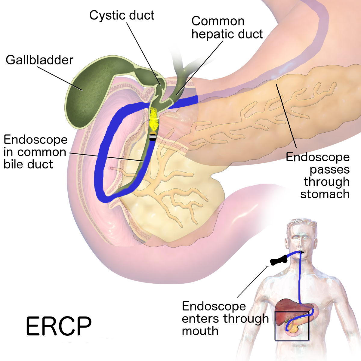 Diagram of the process of ERCP